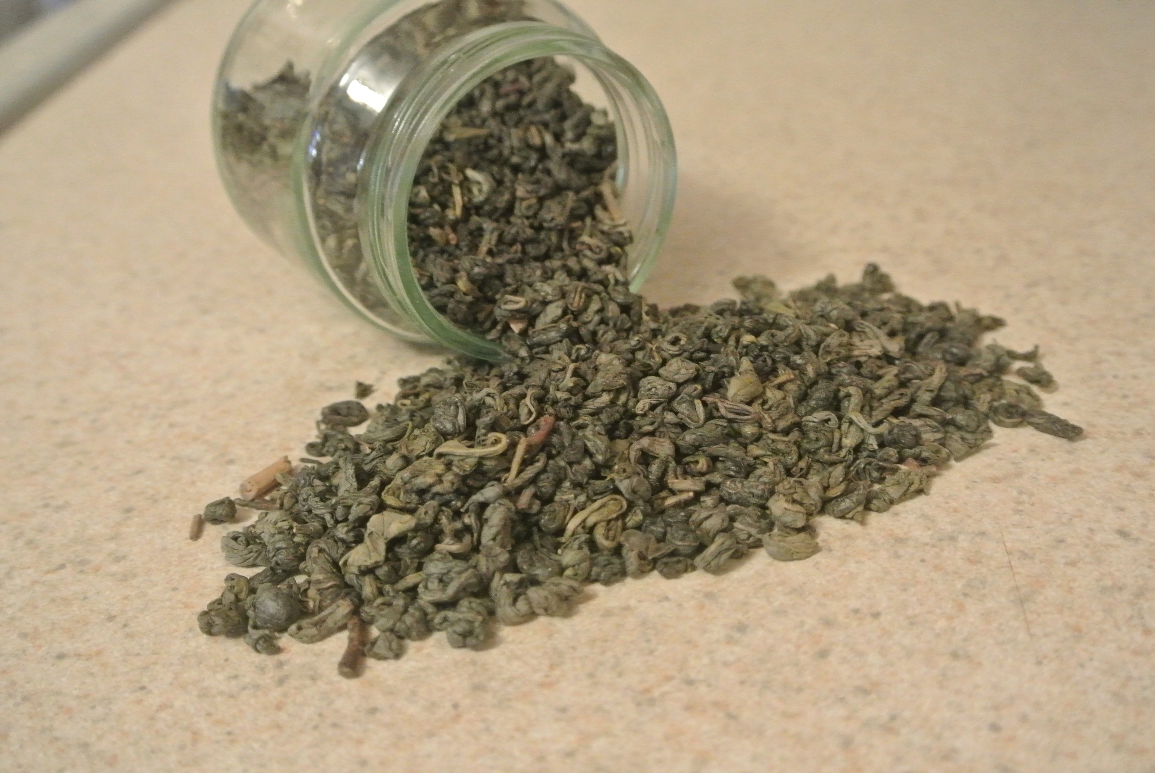 This a picture of gunpowder green tea that is dried and ready to steep into tea.